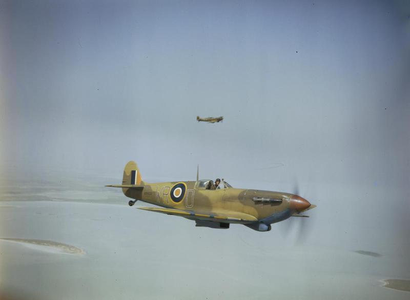 Two clipped-wing Supermarine Spitfire VBs of No. 40 Squadron, South African Air Force, which served in a ground support role in North Africa. Here, ER622/`WR-D' accompanied by another Spitfire of the Squadron patrols over the Tunisian coast in the spring of 1943.